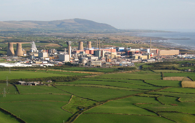 Aerial view looking south toward the Sellafield nuclear reprocessing facility, Cumbria. The large hill behind is Muncaster Fell.